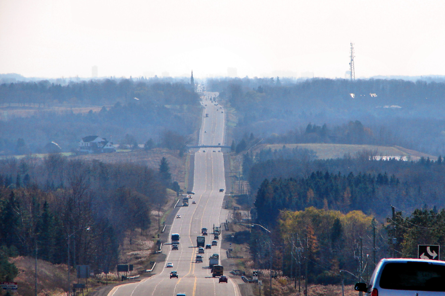 Highway 10 through Town of Caledon, Ontario, Canada